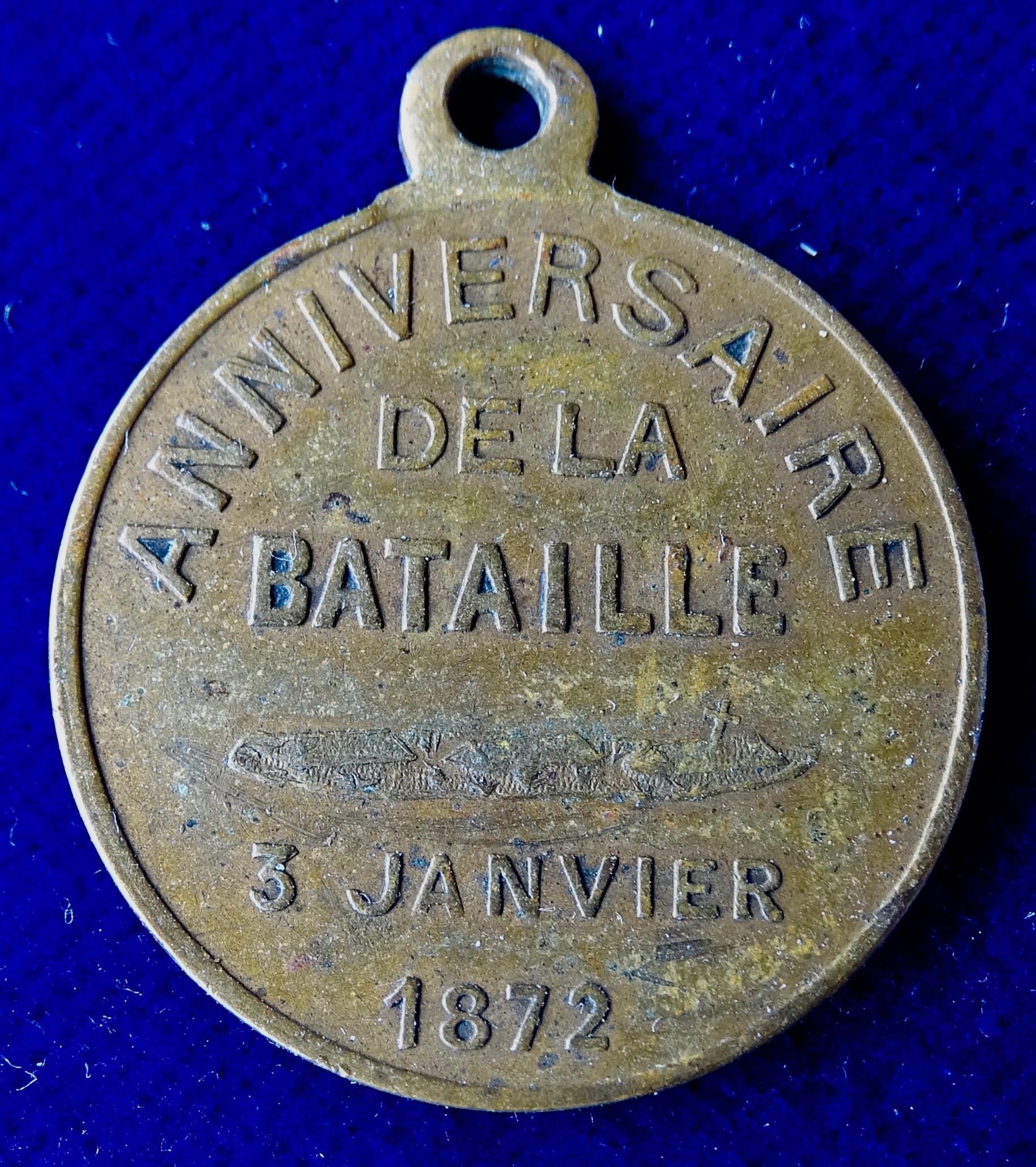 Franco-Prussian War, Battle of Bapaume (1871) French 1st Anniversary Medal 1872. Bronze, d. = 23 mm. General Louis Léon César Faidherbe at the head of the Northern Army stopped the Prussians. 3 lines above 3 graves: "ANNIVERSAIRE DE LA BATAILLE", 2 lines below: "3 JANVIER 1872"/ 4 lines divided by 2 crossed rifles: "TUÉS A BAPAUME LE 3 JANVIER 1871". Surrounding: "* A LA MEMOIRE DES SOLDATS FRANÇAIS *". ND11660 Musée Carnavalet, Histoire de Paris. Condition: EXTREMELY FINE.